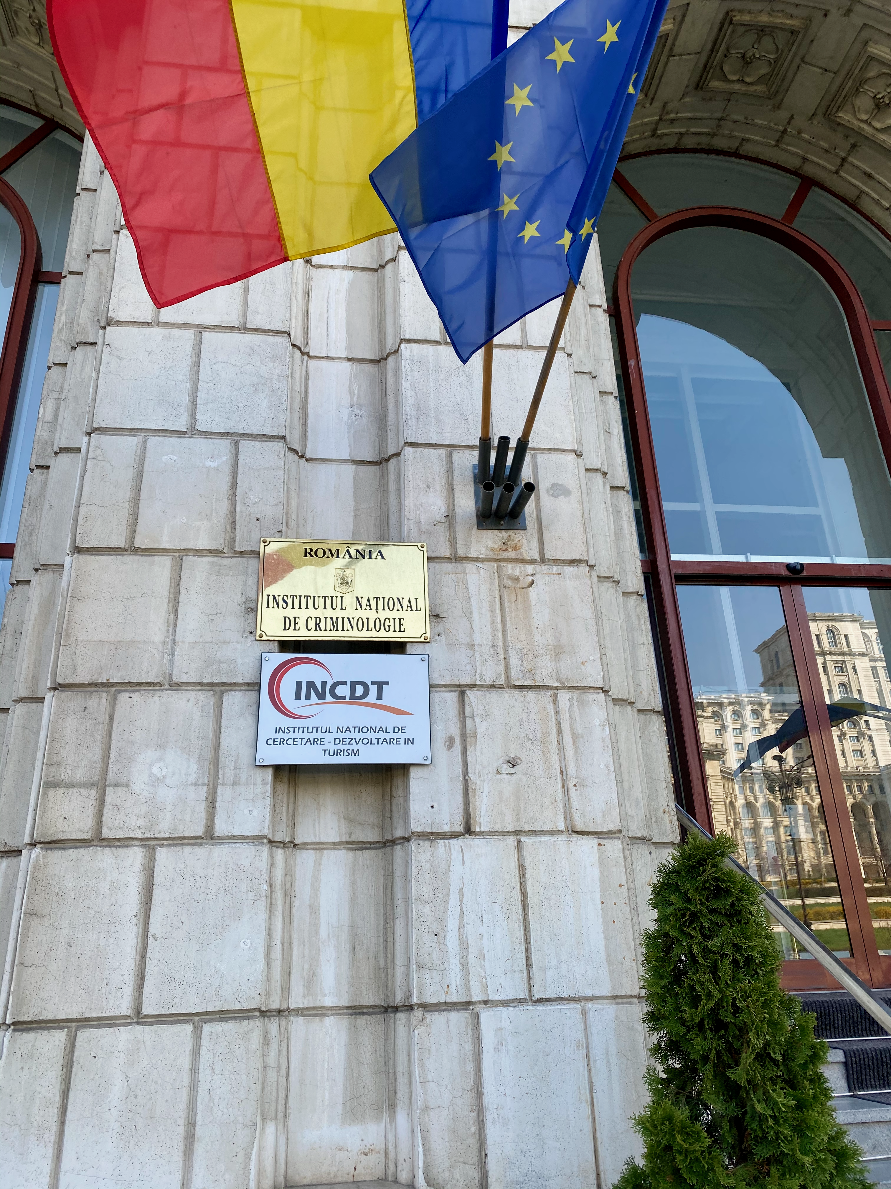 National Criminology Institute of Romania headquarters